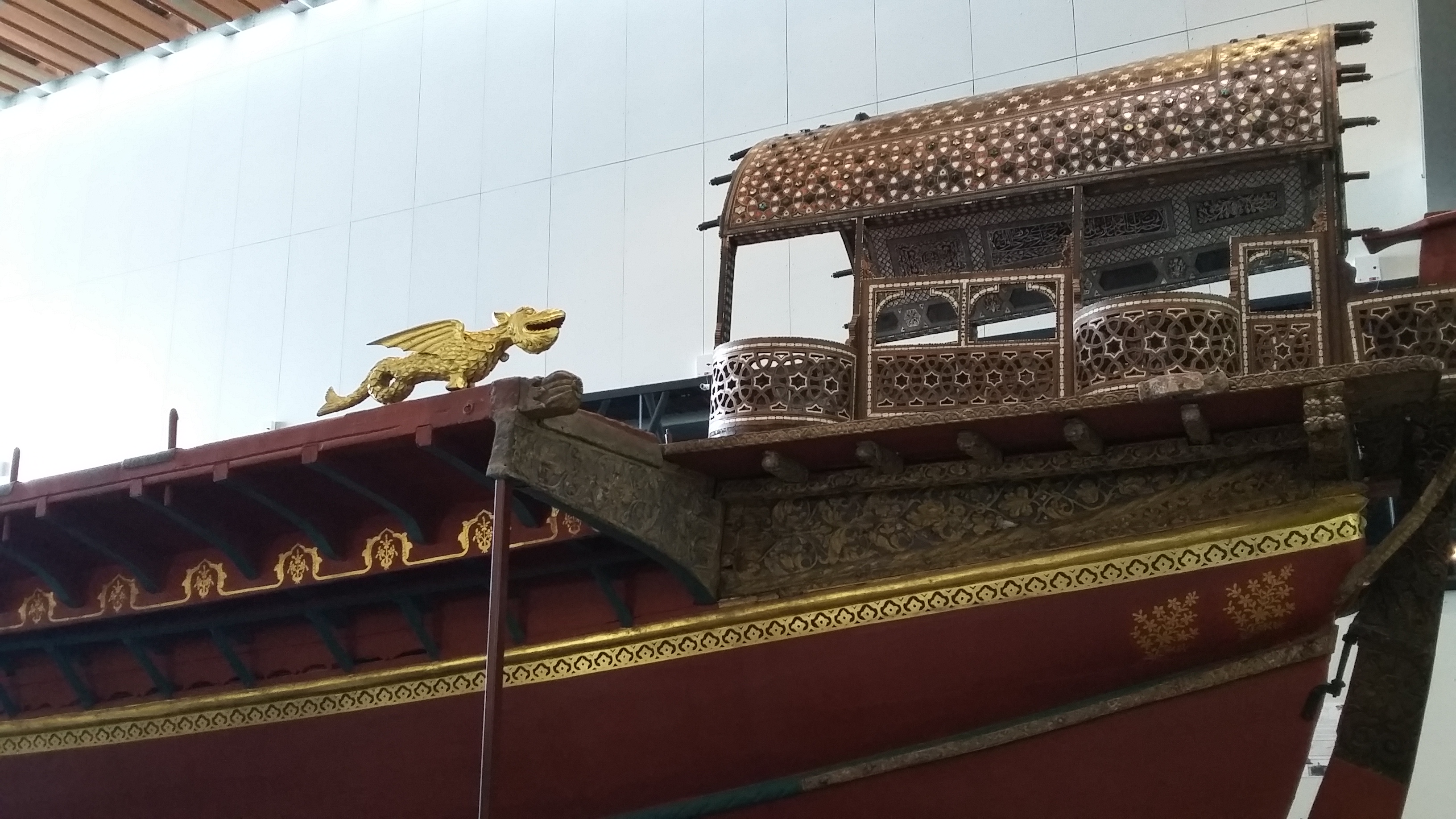 dragon figure in the Naval Museum of Istanbul